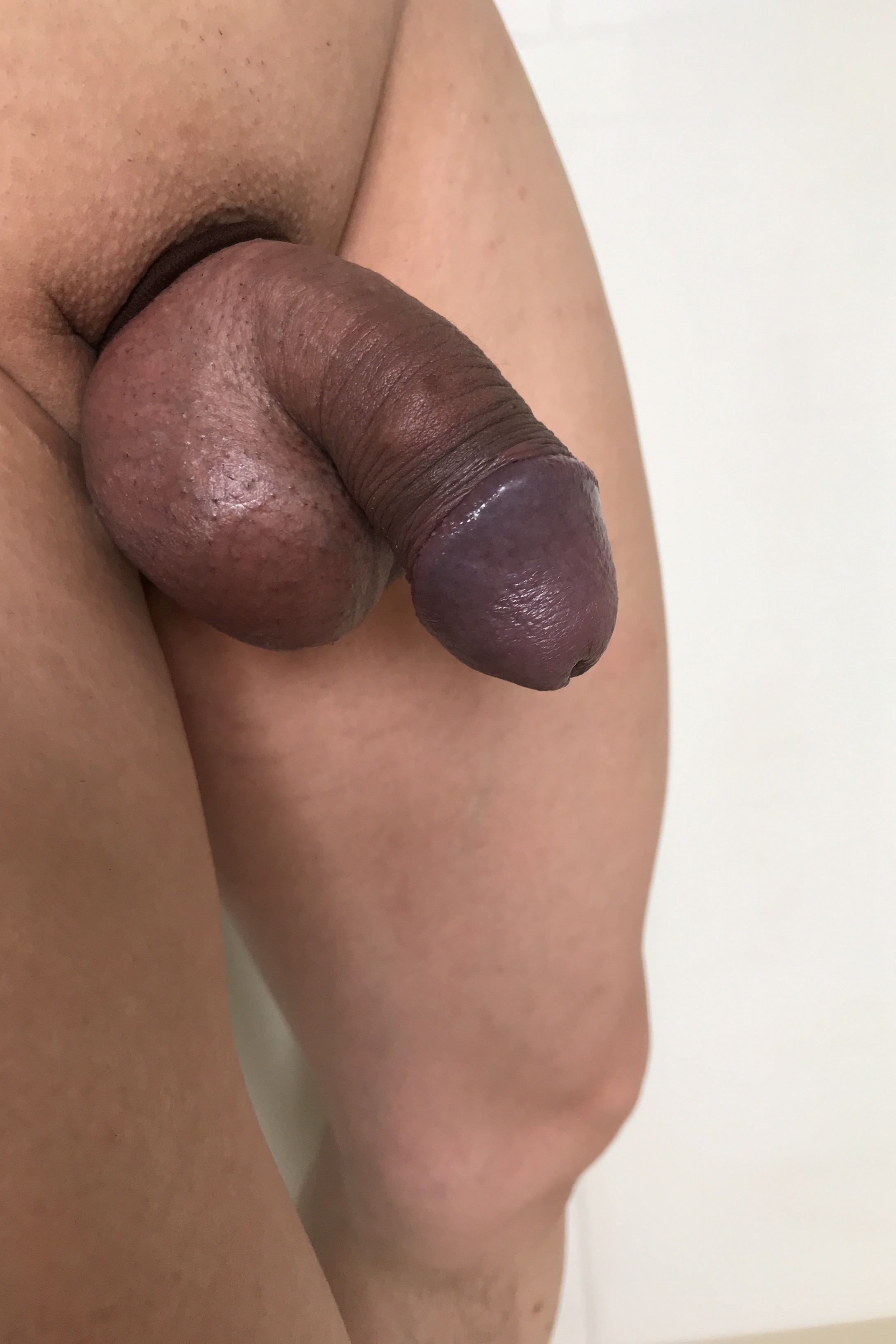 Uncircumcised penis with foreskin retracted